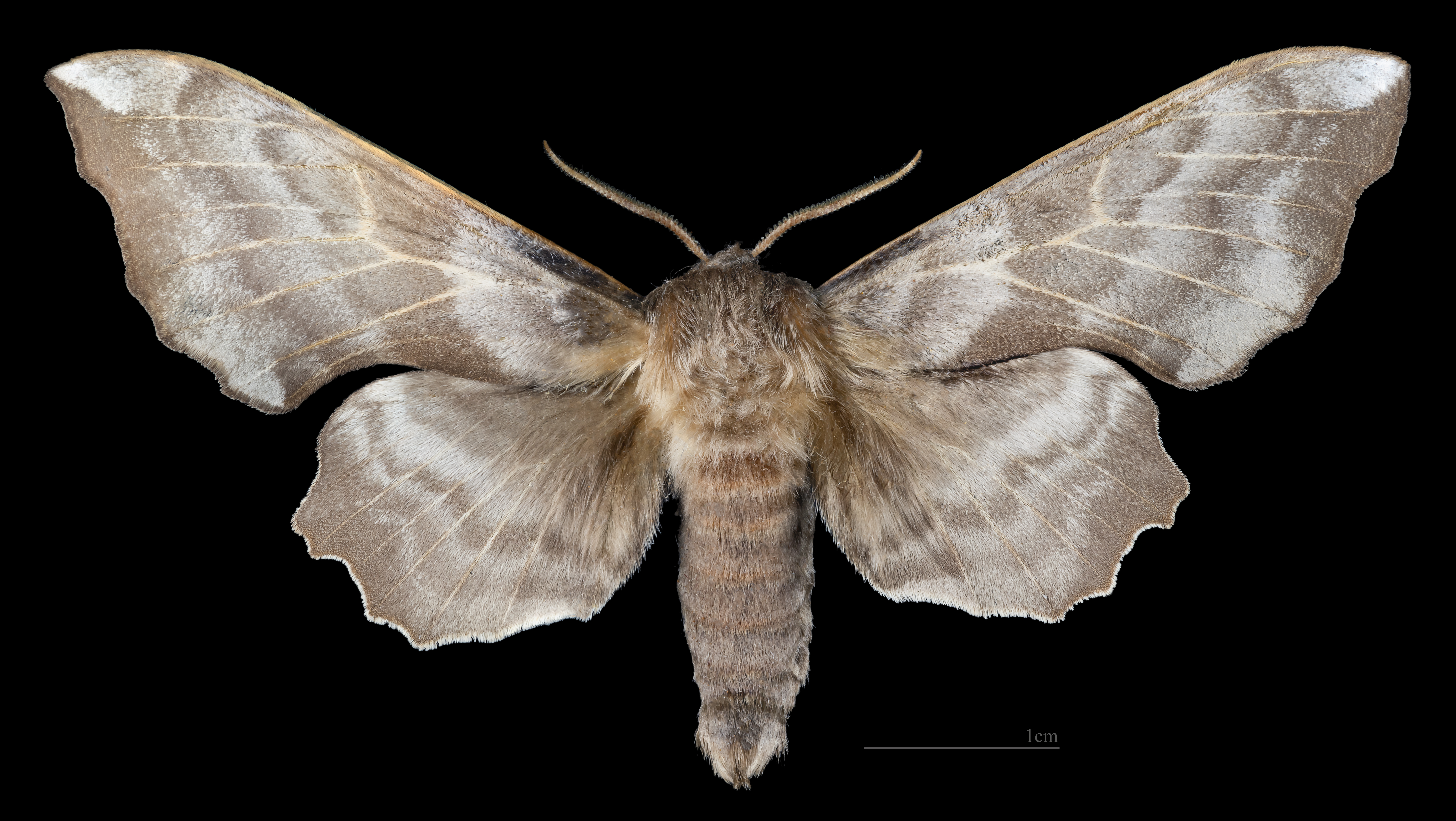 ELaothoe amurensis - Dorsal side Collection of the Mathematician Laurent Schwartz